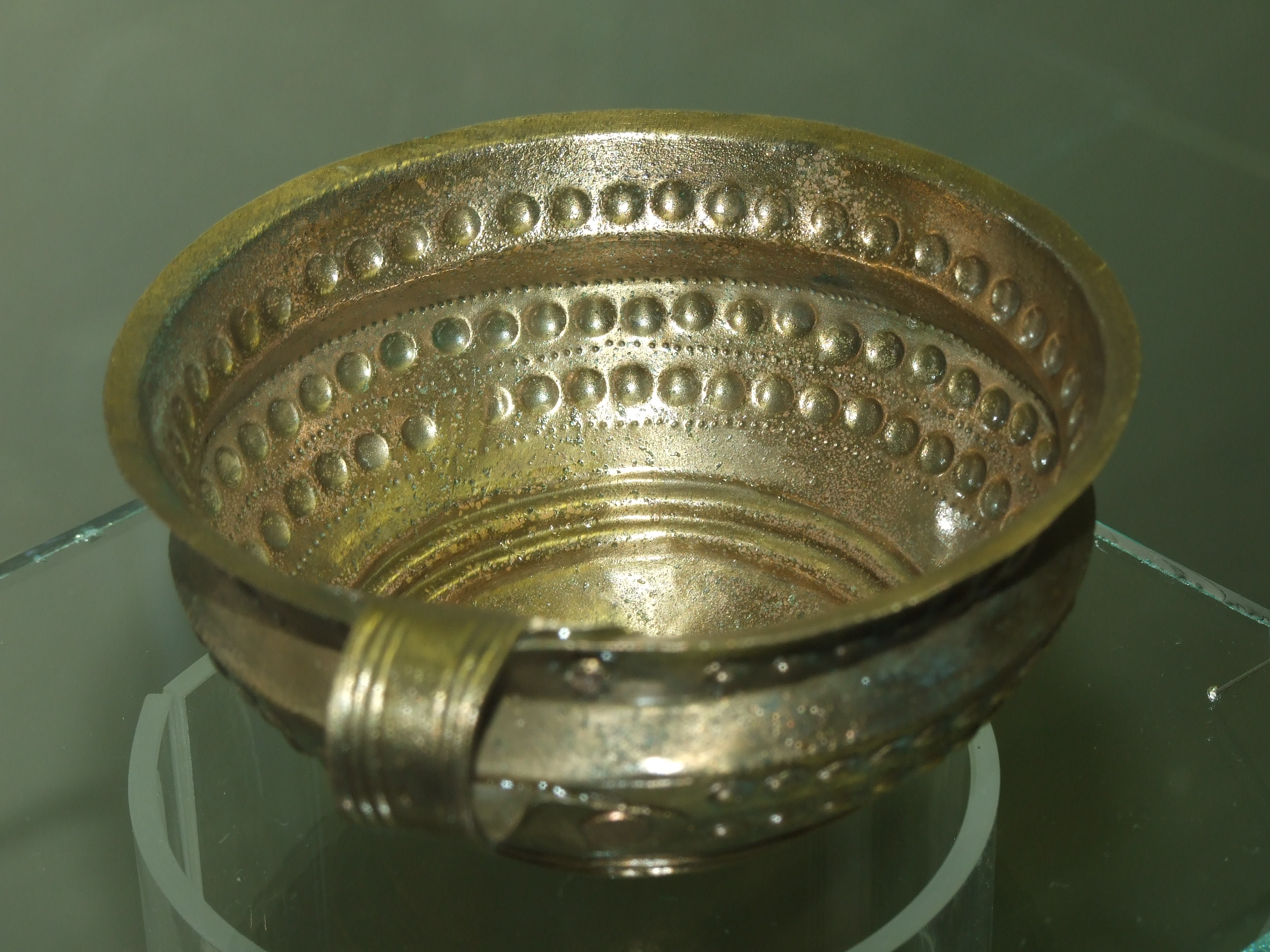 Bronze cup (Jenišovice, Late Bronze Age). Prehistoric Times of Bohemia, Moravia and Slovakia, National Museum in Prague